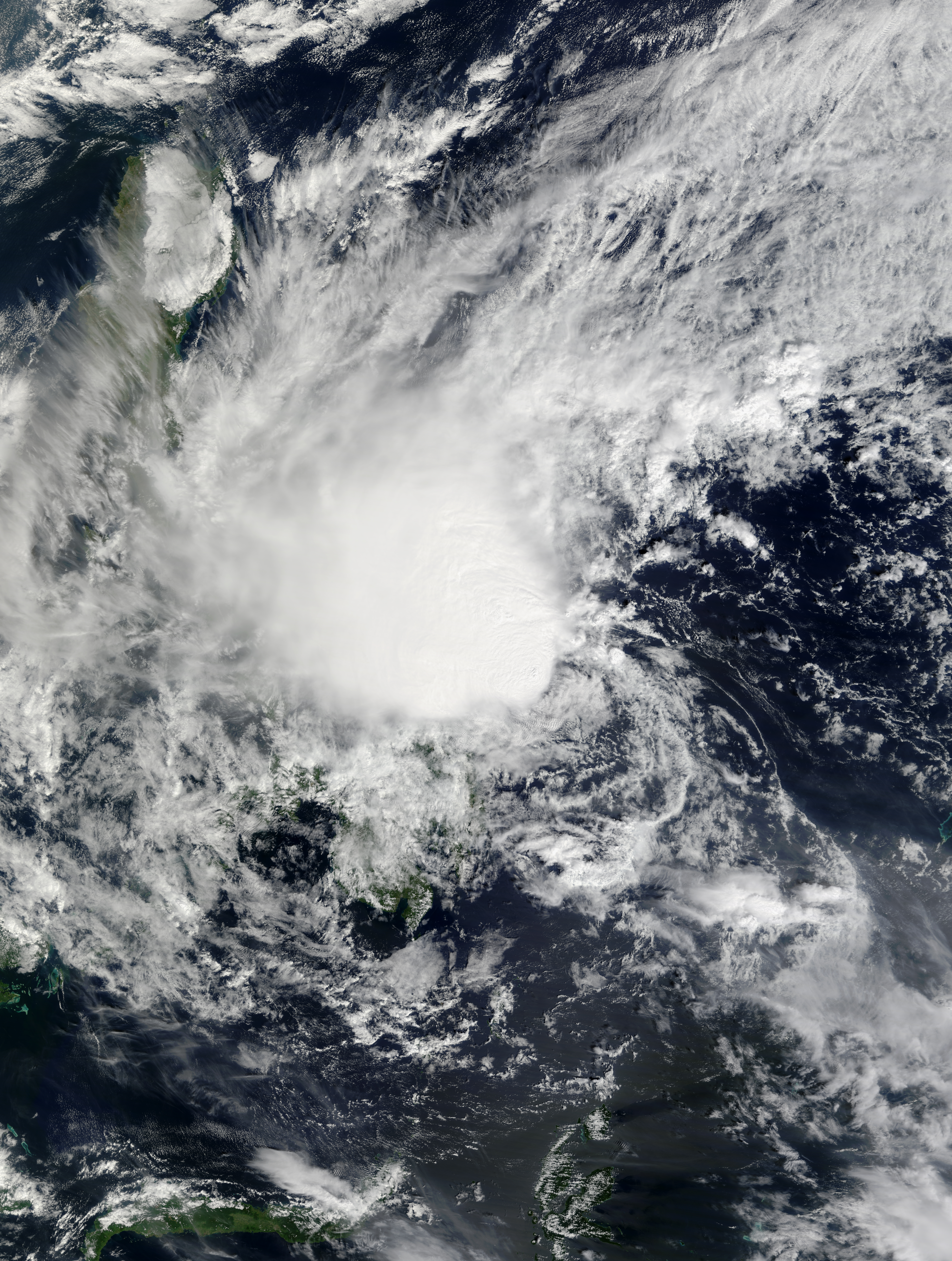 Tropical Storm Lingling over the Philippines on January 18, 2014.